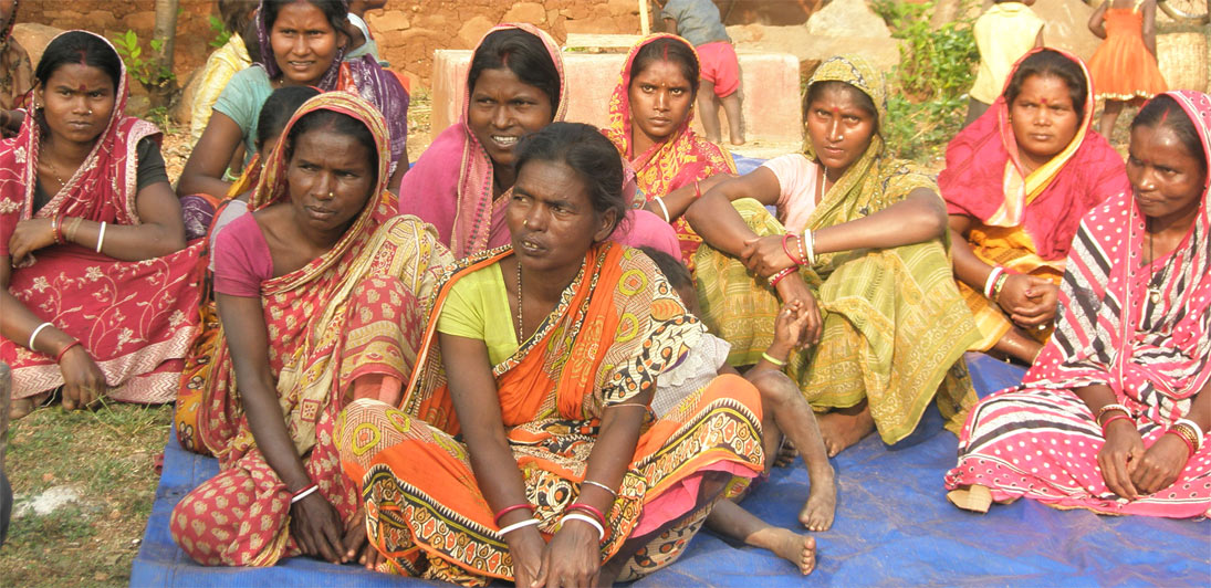 self-regulating community for women's rights in India